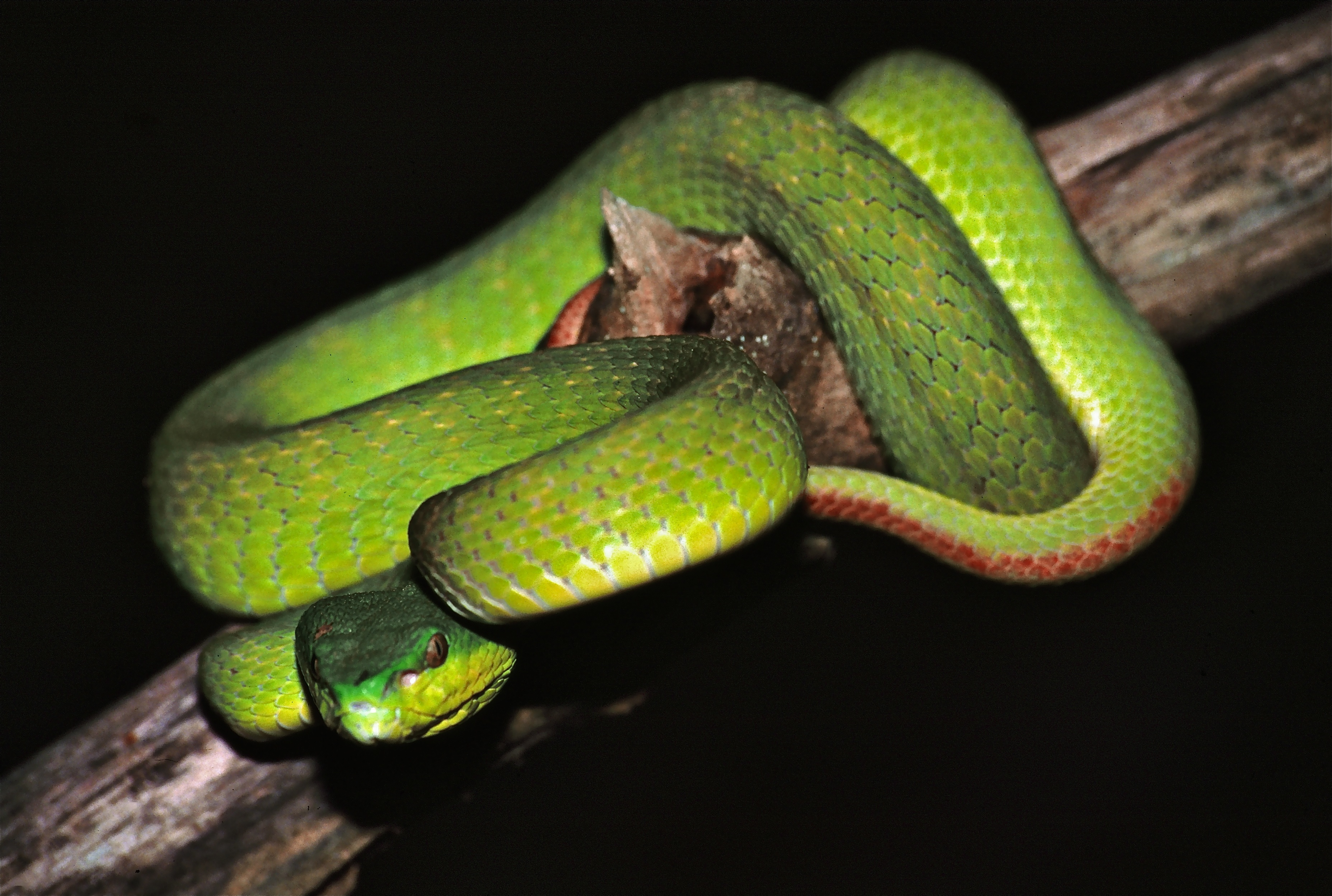 Rinca Island INDONESIA